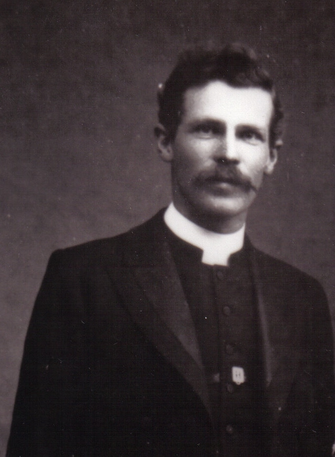 Rev. Alfred Charles Newbury, taken at Albert Park, Victoria in September 1911